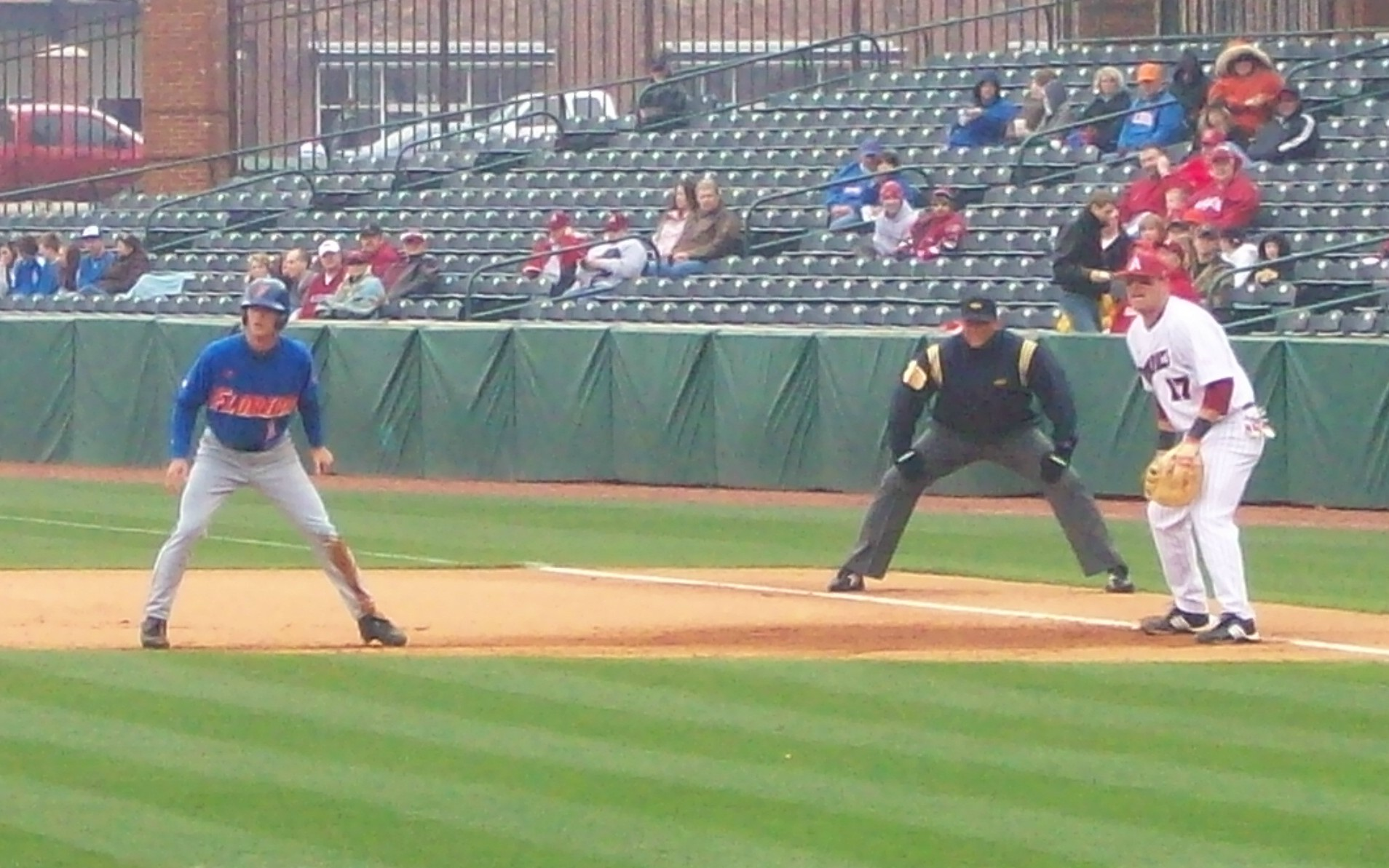 Andy Wilkins holds UF left fielder Avery Barnes on first base